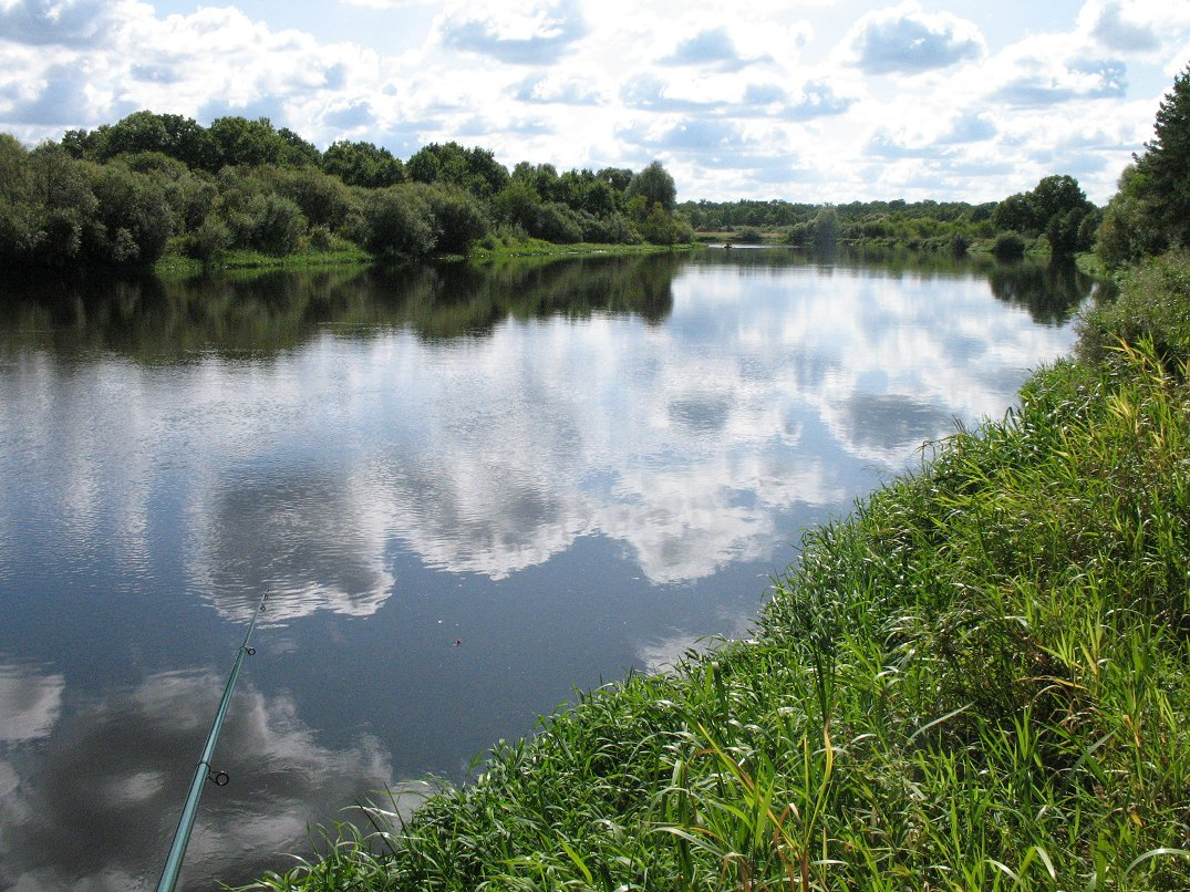 View to Berezina River (Бярэзіна, Березина) in Asipovichy (Асiповiчы, Asipovitšy; Осиповичи, Osipovitši) town in Belarus.